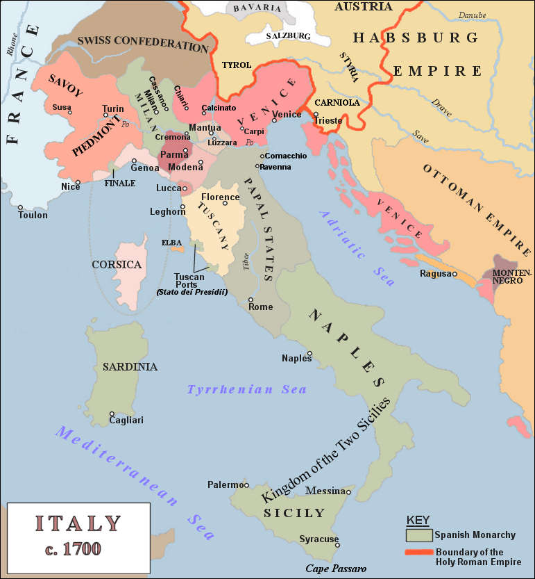 Map of Italy at the begining of the 18th century.